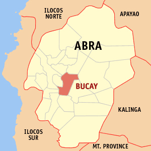 Map of Abra showing the location of Bucay